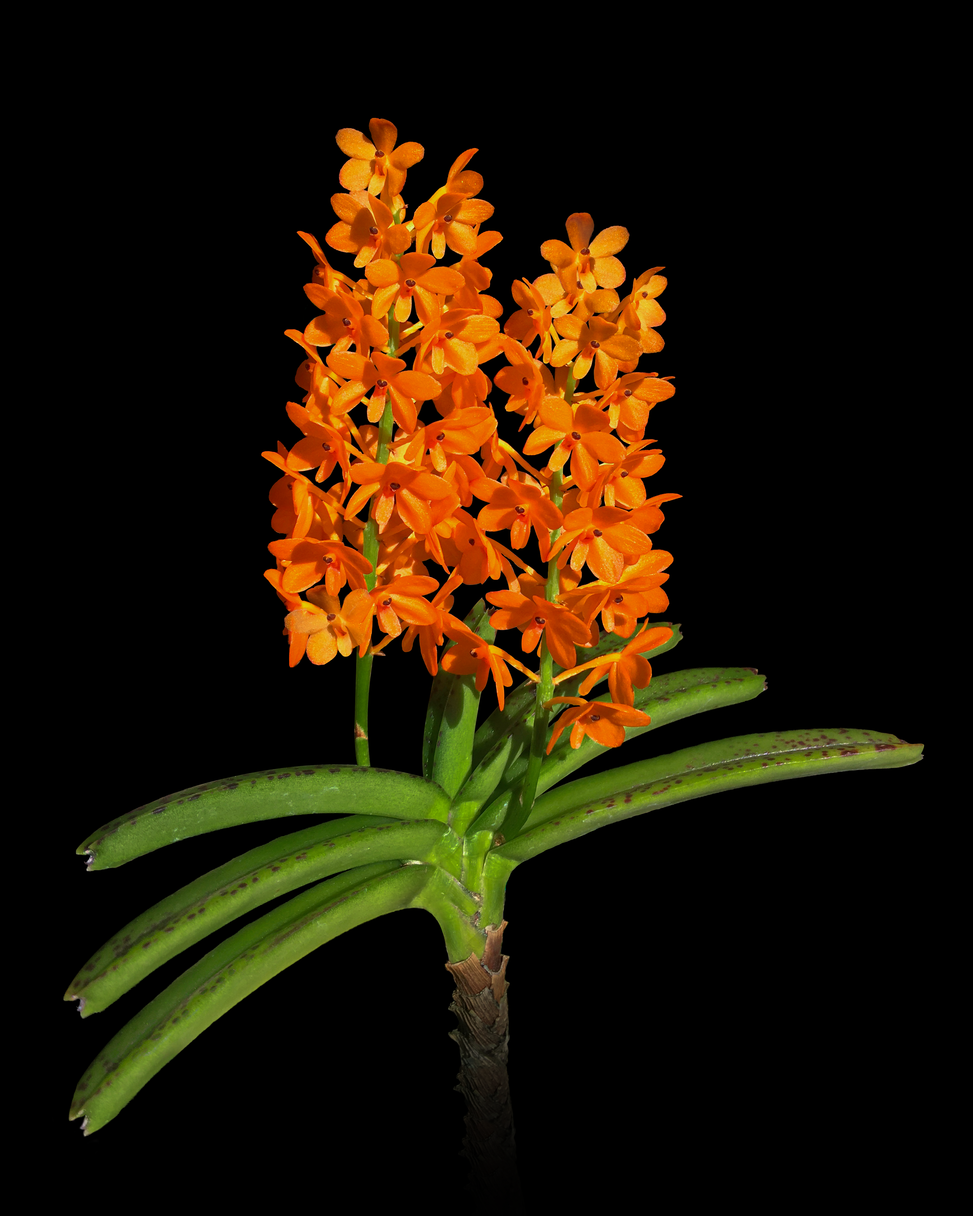 Photo of orchid Vanda garayi (formerly Ascocentrum garayi) in bloom, digitally isolated on a black background.